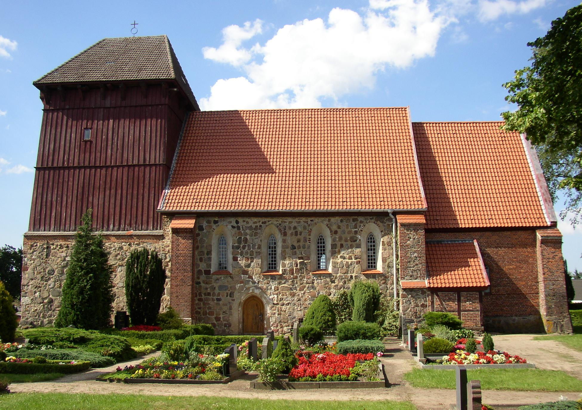 Church in Neu Gülze-Zahrensdorf in Mecklenburg-Western Pomerania, Germany